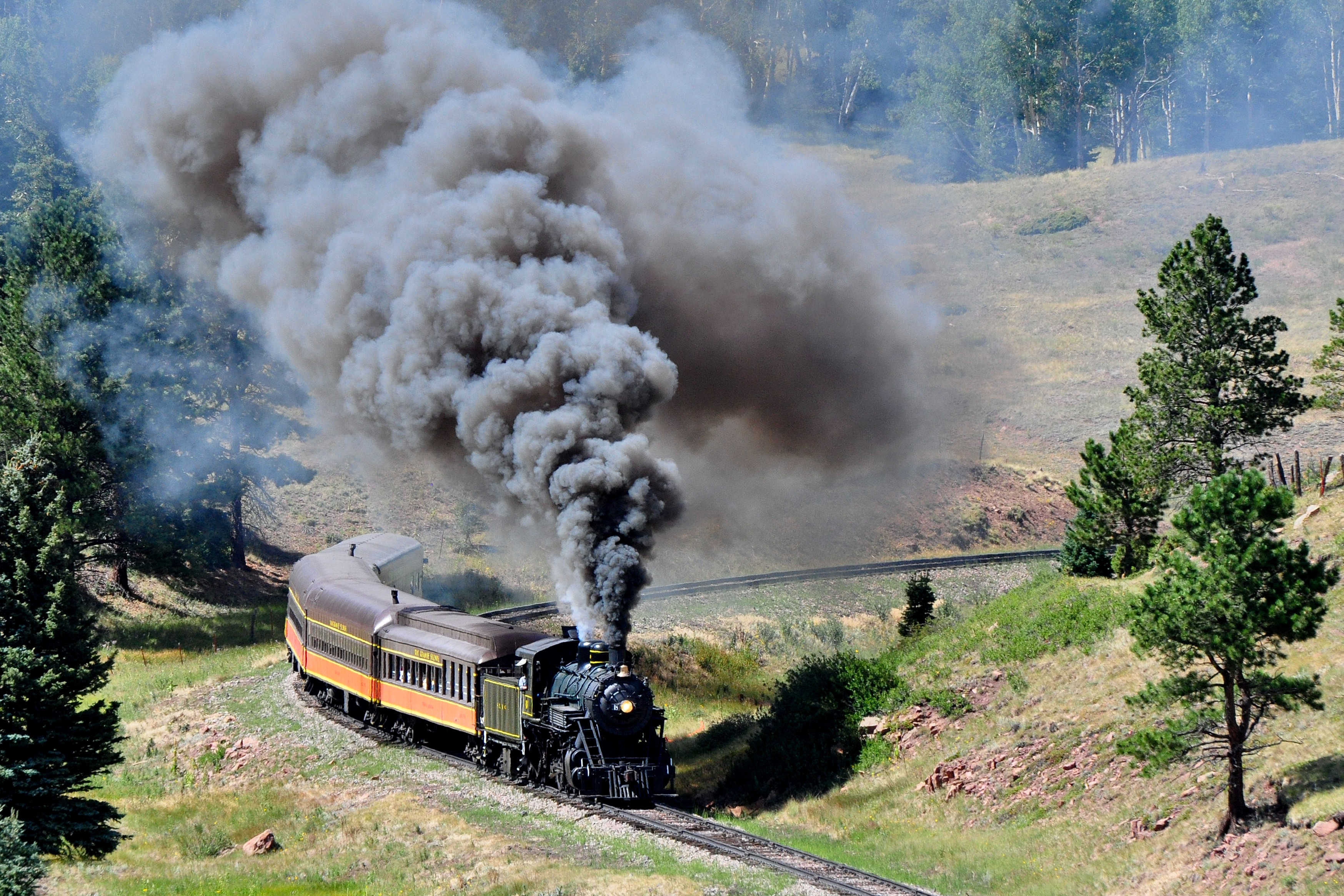 2011 Photo Spectacular Train